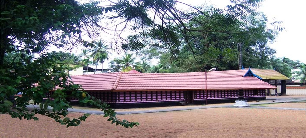 Chakkamkulangara Temple in Thrippunithura, Kerala, India